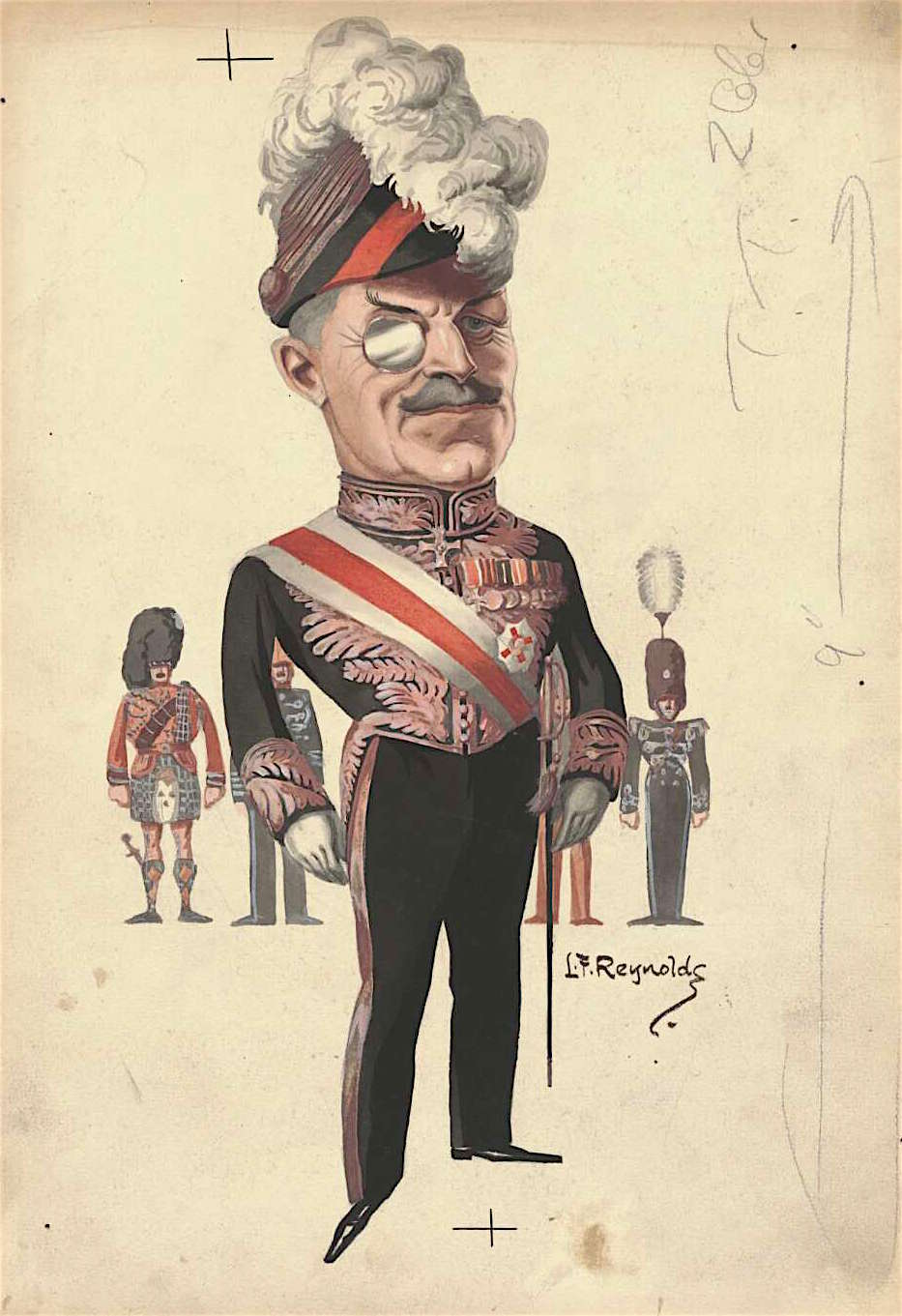 Caricature of Lord Stonehaven as Governor-General